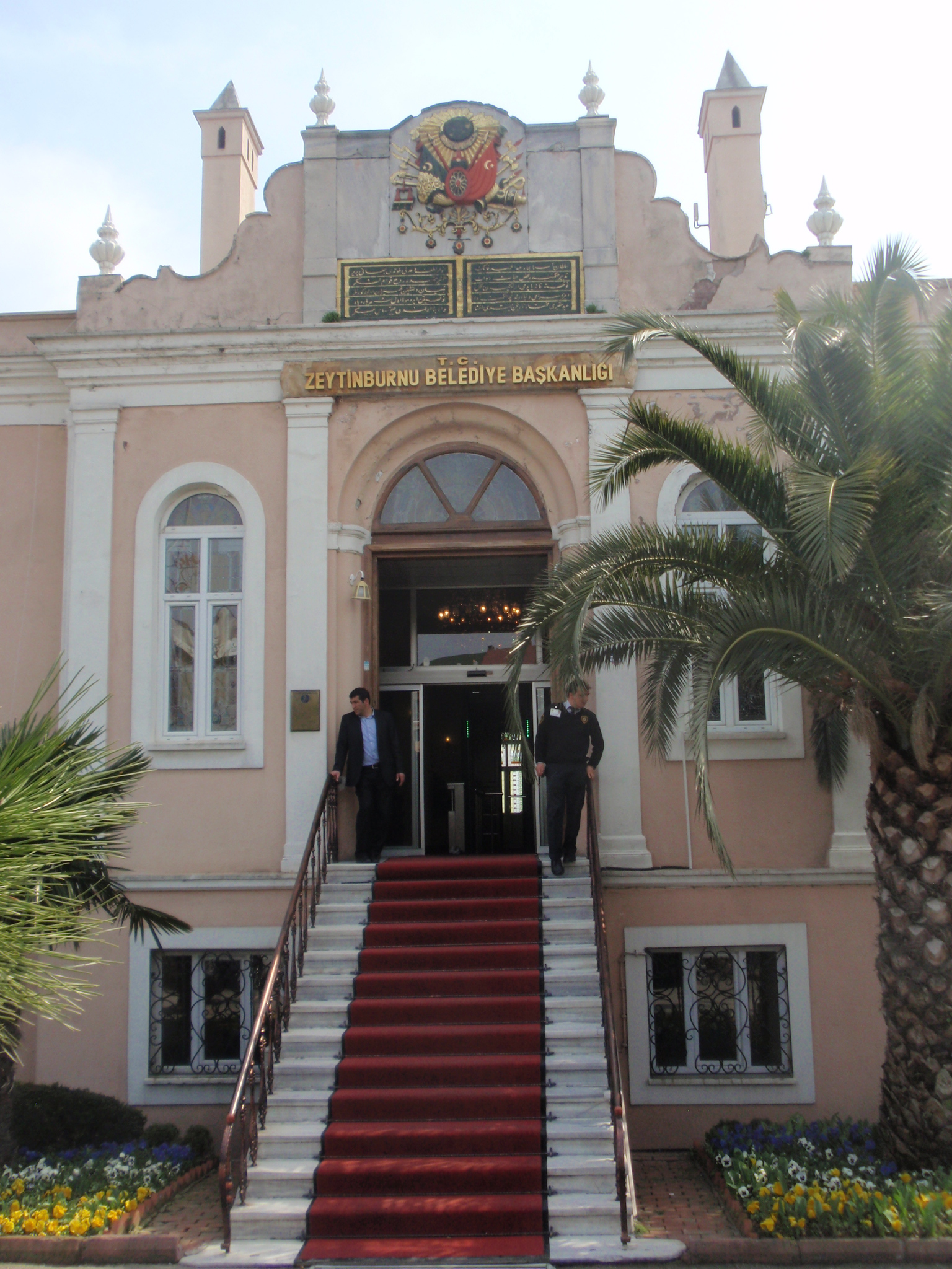 zeytinburnu city hall-old military hospital